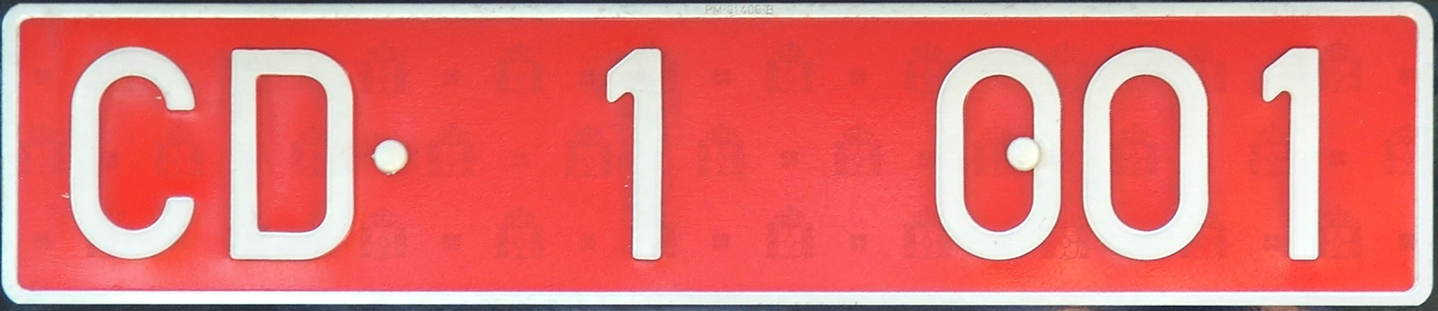 Diplomatic vehicle licence plate from Spain as seen in 2007.